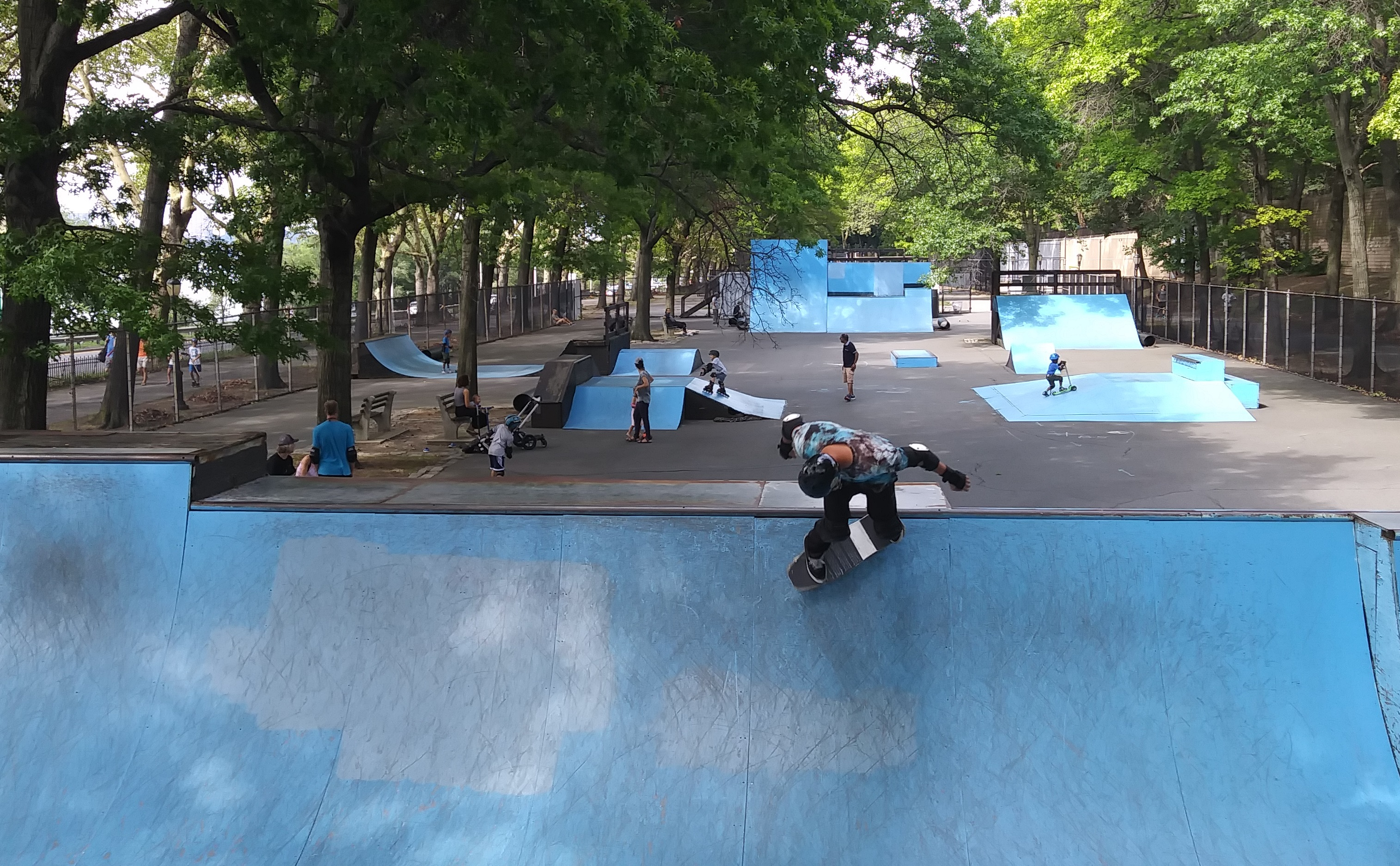 Riverside Skatepark August 6 2017 looking north, in the foreground is the 6' mini ramp, at the far north end is the 10' vert ramp